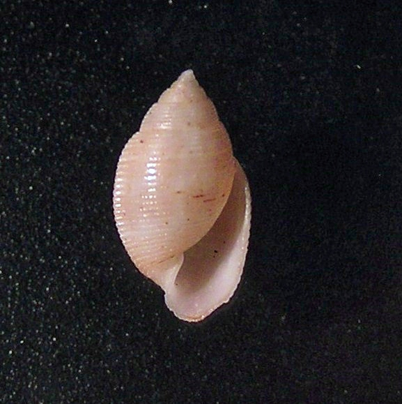 Punctacteon fabreanus (Crosse, 1874) (synonym: Acteon fabreanus Crosse, 1873), a barrel bubble snail from the family Acteonidae; Philippines